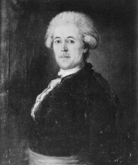 Matthias Norberg (1747-1826), Swedish linguist; professor of Greek and oriental languages at Lund University. Norberg is shown wearing the so called "Nationella dräkten ("national dress") introduced by king Gustav III of Sweden.